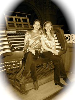 Vera & Katherine Nikitine at their concert on the world biggest church-organ in Passau